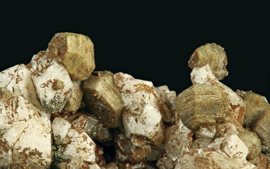 Locality: ⓘ Poudrette quarry (Demix quarry; Uni-Mix quarry; Desourdy quarry; Carrière Mont Saint-Hilaire), Mont Saint-Hilaire, La Vallée-du-Richelieu RCM, Montérégie, Québec, Canada FOV ~ 2 cm. Individual xls ~ 3-4 mm diameter. Via Jean-Yves Lamoureux (found Jan 1988 - at minus 28ºC!). MOB coll. This is classic MSH donnayite-(Y). I don't know if it is from an analyzed find so strictly speaking it is "donnayite group". But here is JY's description of the find: "The famous donnayite pocket opened at the end of 1987. We worked that pocket on January 17, 24, and 31st ,1988, under extreme conditions : minus 28 degrees Celsius on the 24th ! Wine froze in a bottle we had brought... We got out of the pocket soaked to the bones as water continually trickled inside. We were... younger, then! :)"